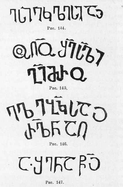 Georgian inscriptions from Tigva church as reproduced by Uvarova in 1894.